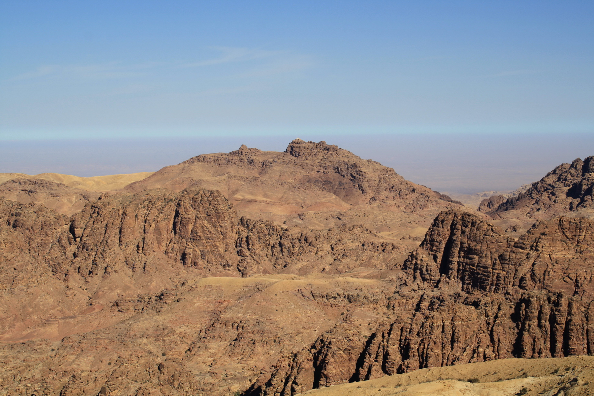 Wadi Moussa, Aravah Valley, Jordan